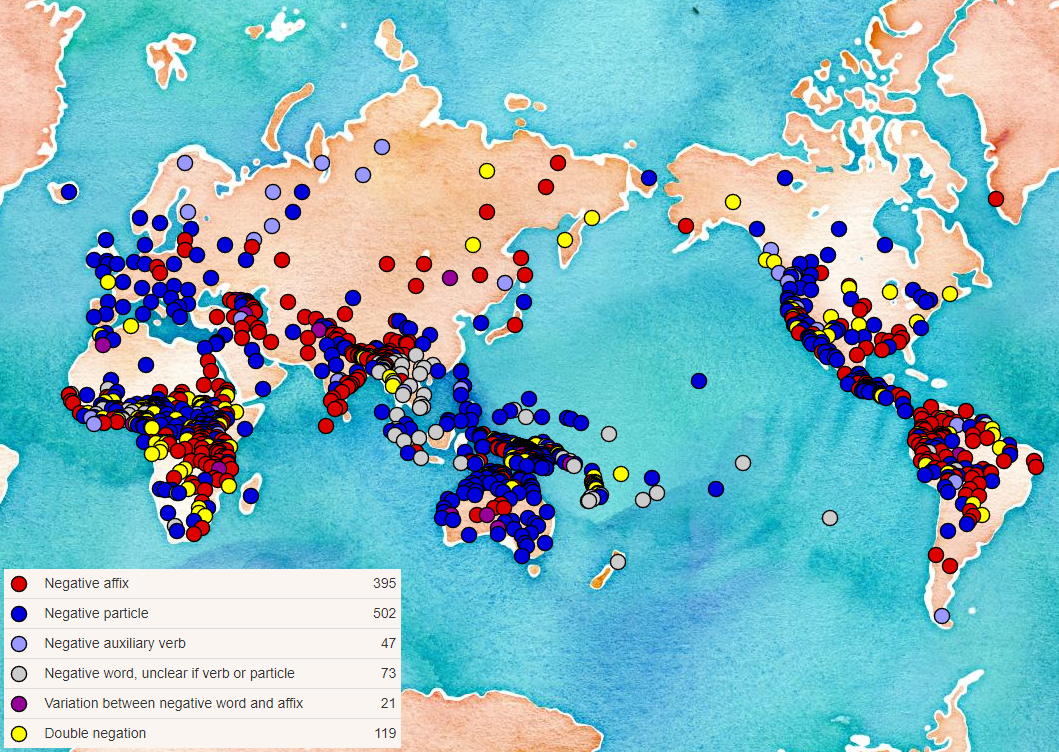 Feature 112A: Negative Morphemes — This map shows the nature of morphemes signalling clausal negation in declarative sentences. By clausal negation is meant the simple negation of an entire clause; (b) is the negative clause corresponding to the affirmative clause in (a) a. John is eating pizza. b. John is not eating pizza. Not considered here are noun phrase negation (No students were present), negative pronouns (Nobody came), or negative adverbs (She never eats pizza) (though see Map 115A on negative pronouns). The map is based on the expression of negation in declarative sentences; thus, where a language employs a distinct construction in imperative sentences, that construction is ignored here (see Map 71A).